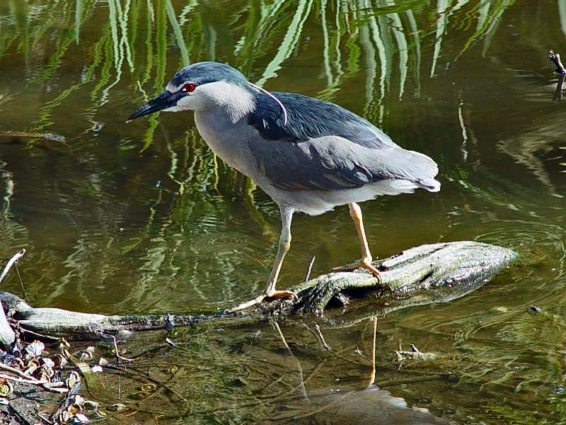 Description Nycticorax nycticorax, Night heron. Date March 30, 2003 Location Ocean Beach - San Francisco California Photographer Franco Folini